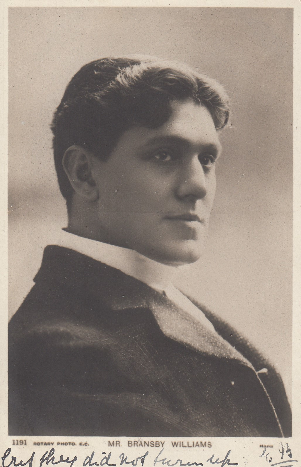 RPPC postcard of actor Bransby Williams.